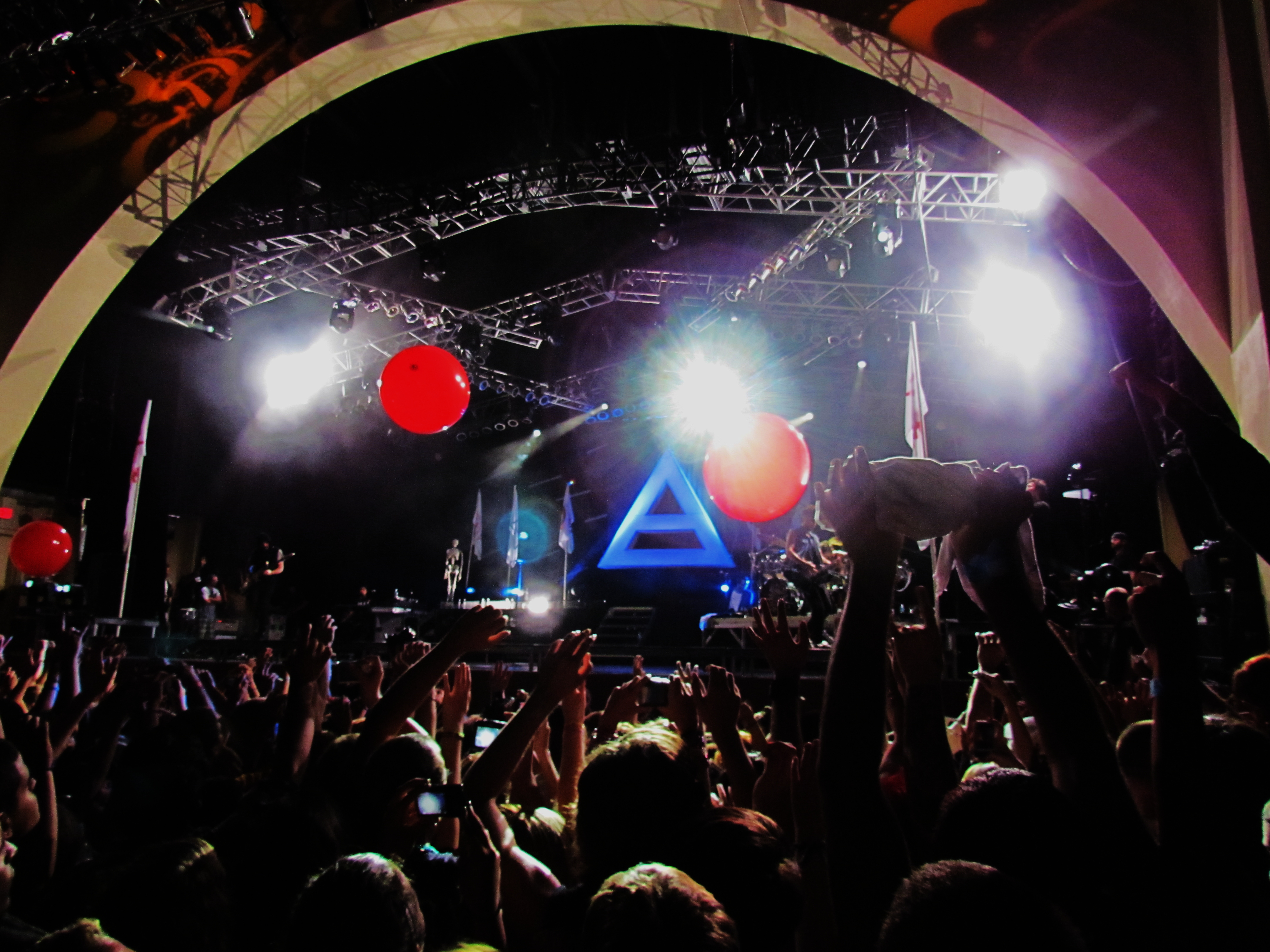 Thirty Seconds to Mars 2011 Universal Studios, FL